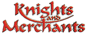 The logo of the 1998 game "Knights and Merchants".